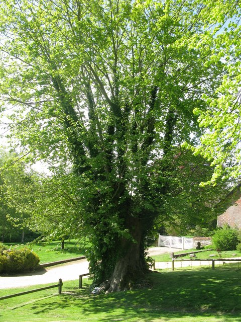 The Martyrs tree Under this tree the Tolpuddle Martyrs agreed to form a trade union. In 1834 they were tried at Dorchester assizes and transported for seven years